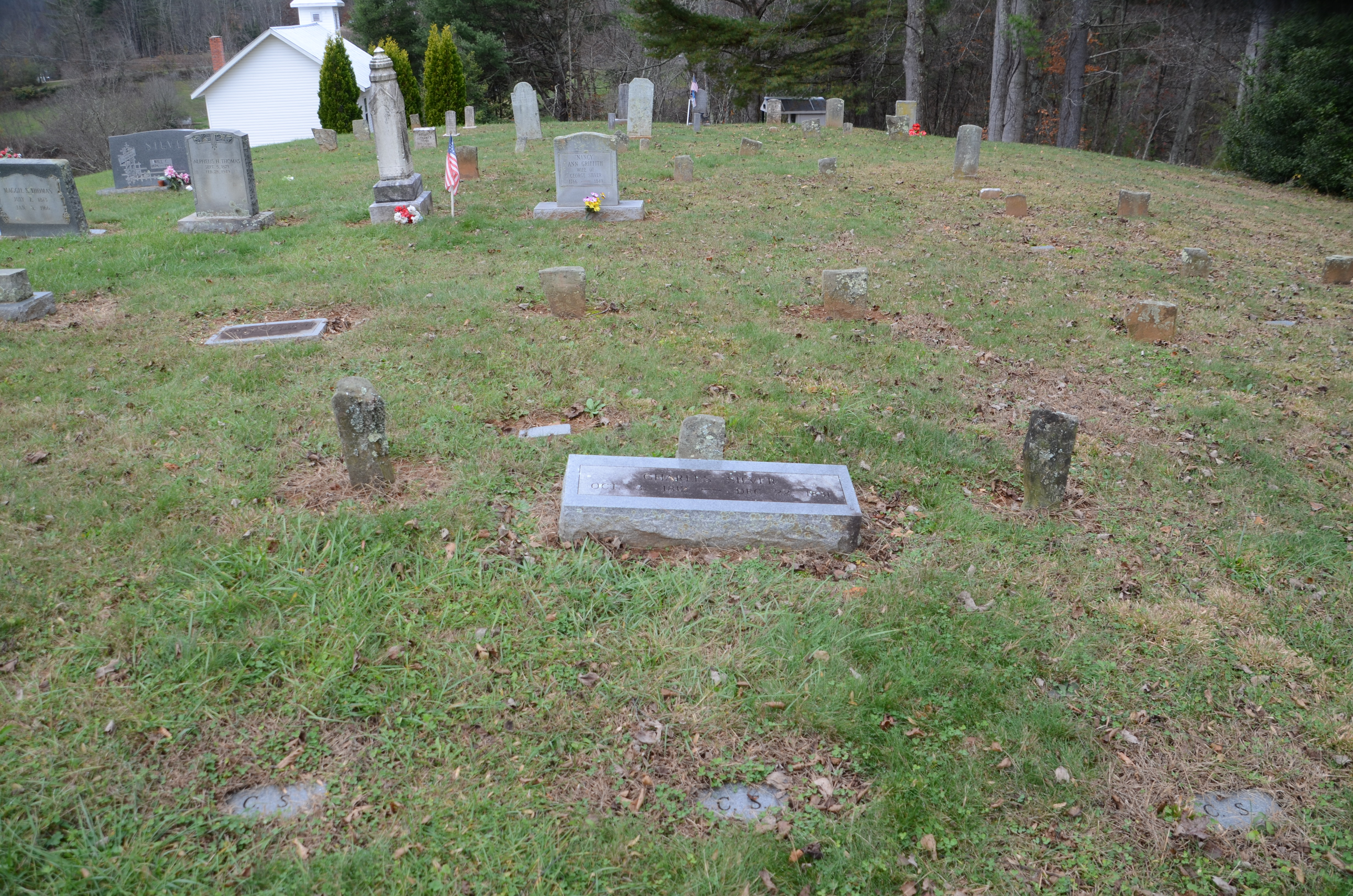 The grave of Charlie Silver in Kona, Mitchell County. Noth Carolina. Charles "Charlie" Silver was presumably murdered on December 22nd 1831 by his 16 year old wife, Frances "Frankie" Steward Silver.